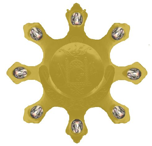 The Nishan-i-Sardari "Order of the Leader", founded by King Amanullah in 1923, as a reward for exceptional services to state and crown, conferred by the King on his own initiative, enjoyed the titles of Sardar-i-Ala 'the most high leader' or Sardar-i-Ali (first viz. second class) before their names and received grants of land, until the order was made obsolete in 1929 (no longer when later revived by King Muhammad Zahir Shah).